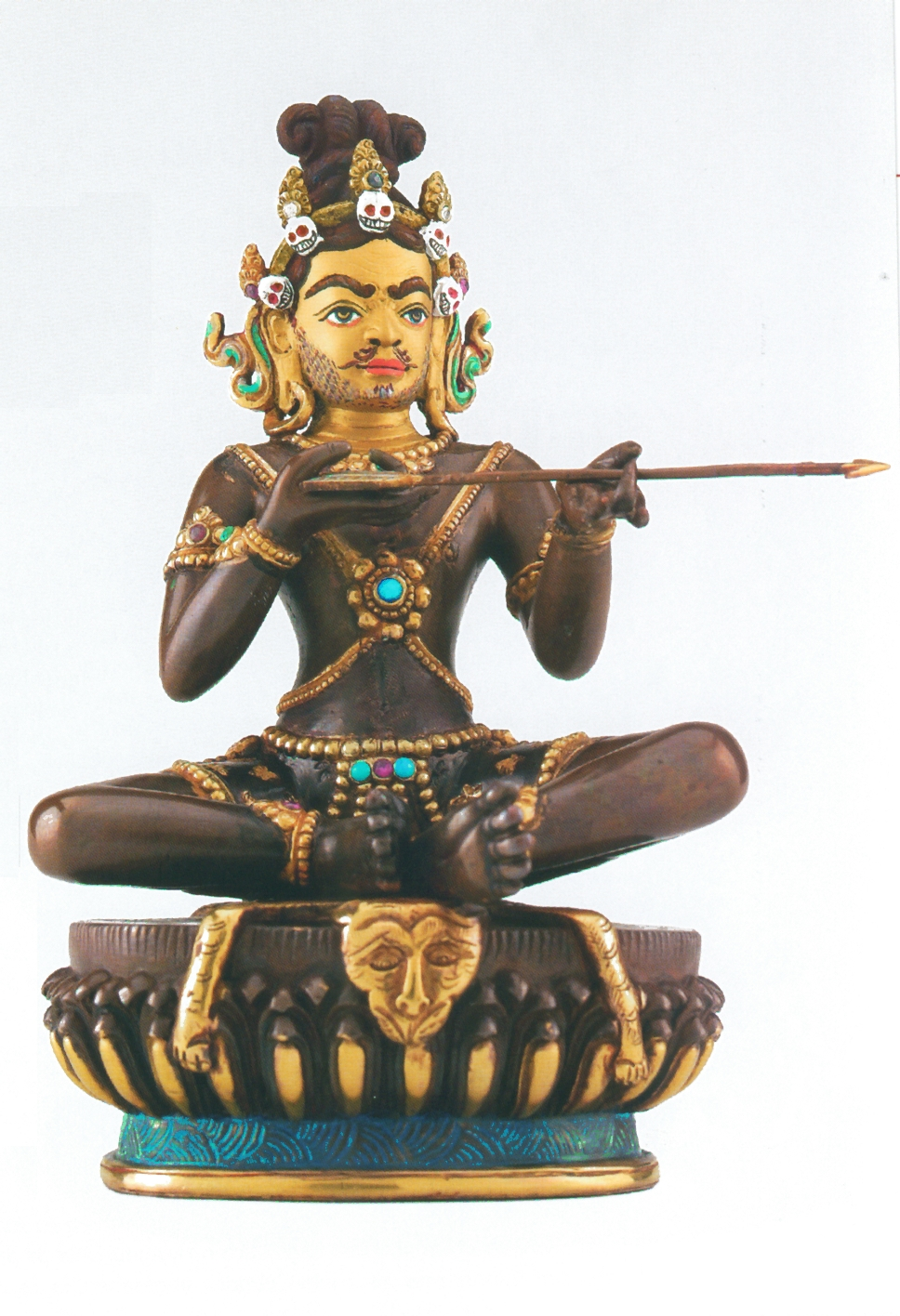 A contemporary bronze image of Saraha, probably made in Nepal. Saraha is often icongraphically depicted holding an arrow is mda'.